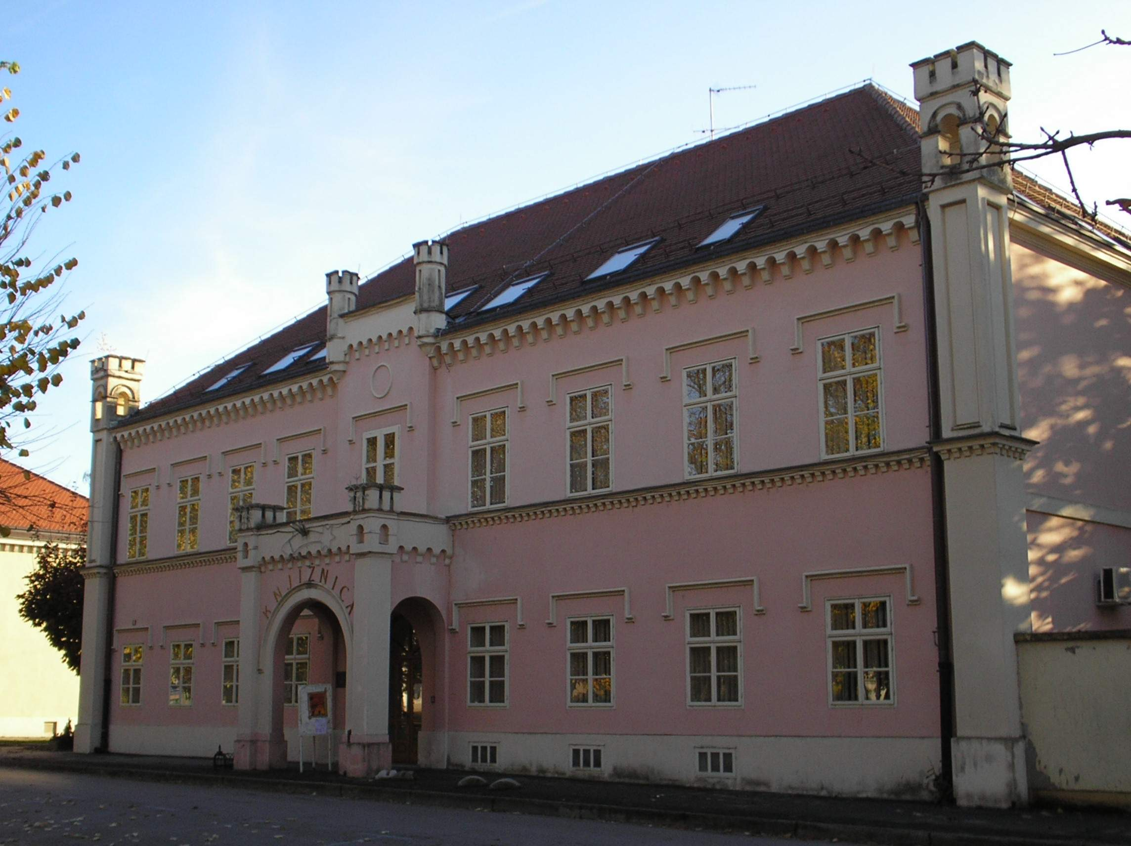 Library in Bjelovar, Croatia